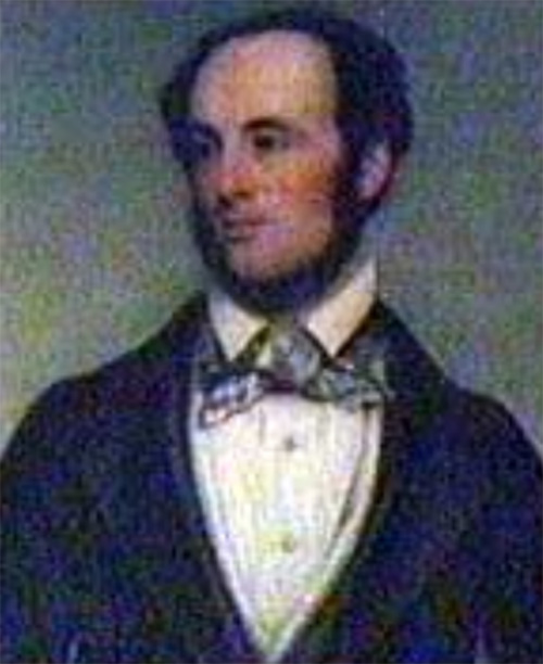 Sir Charles Isham owner of Lamport Hall circa 1850